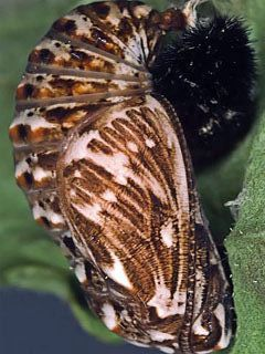 Heath Fritillary pupa